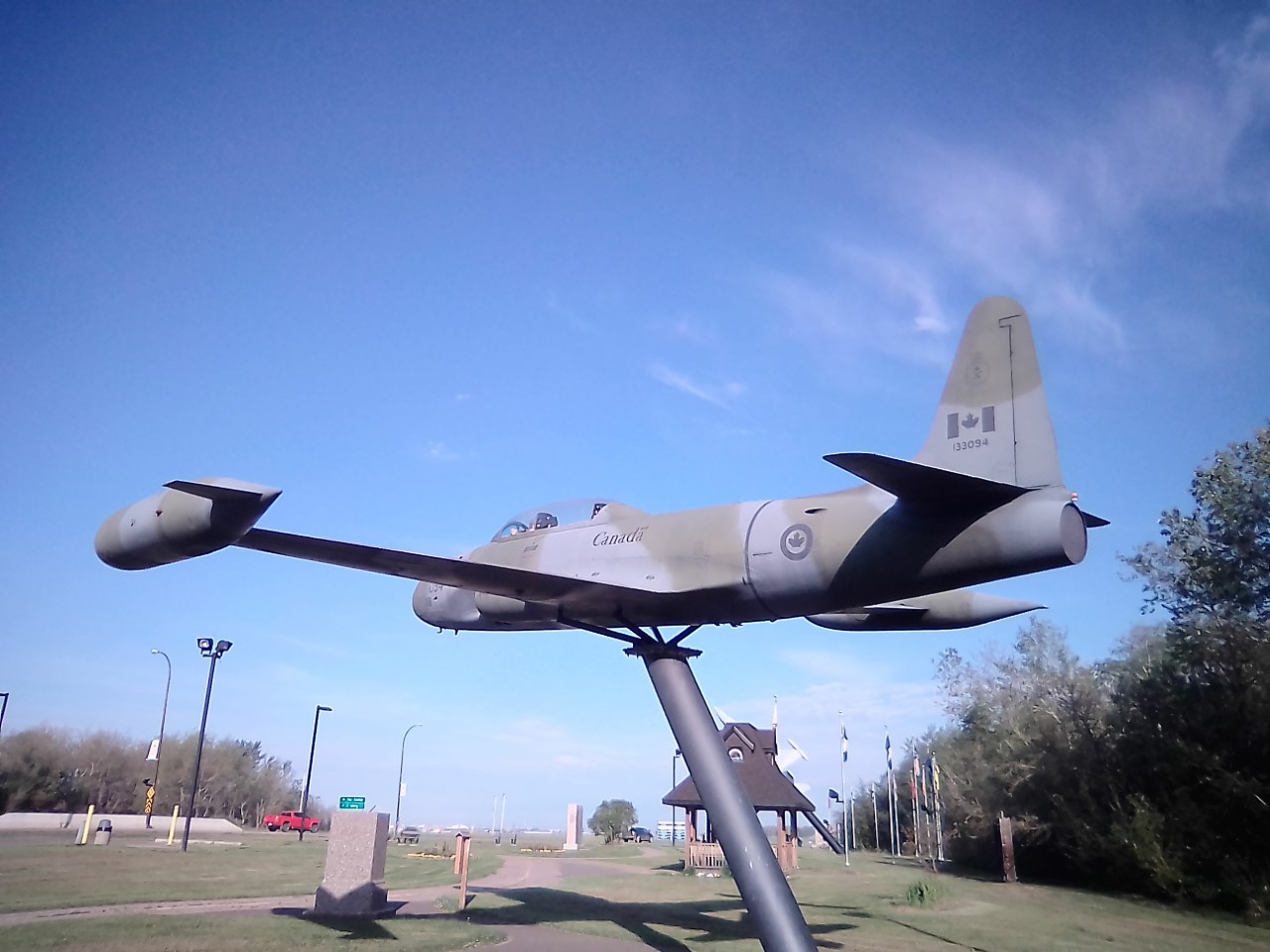 CT-33 on display at 4th Wing Cold Lake AB